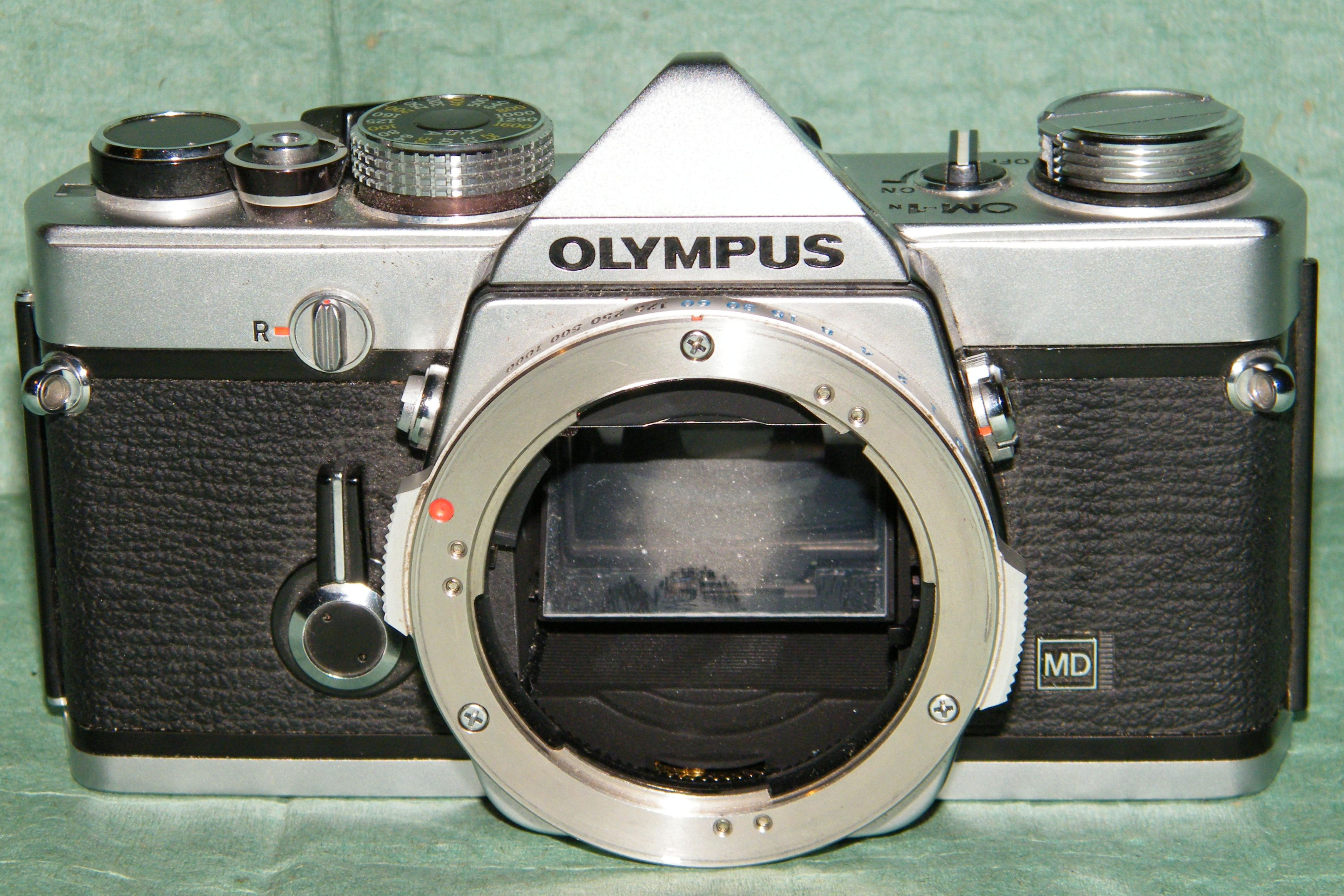 Olympus OM-1